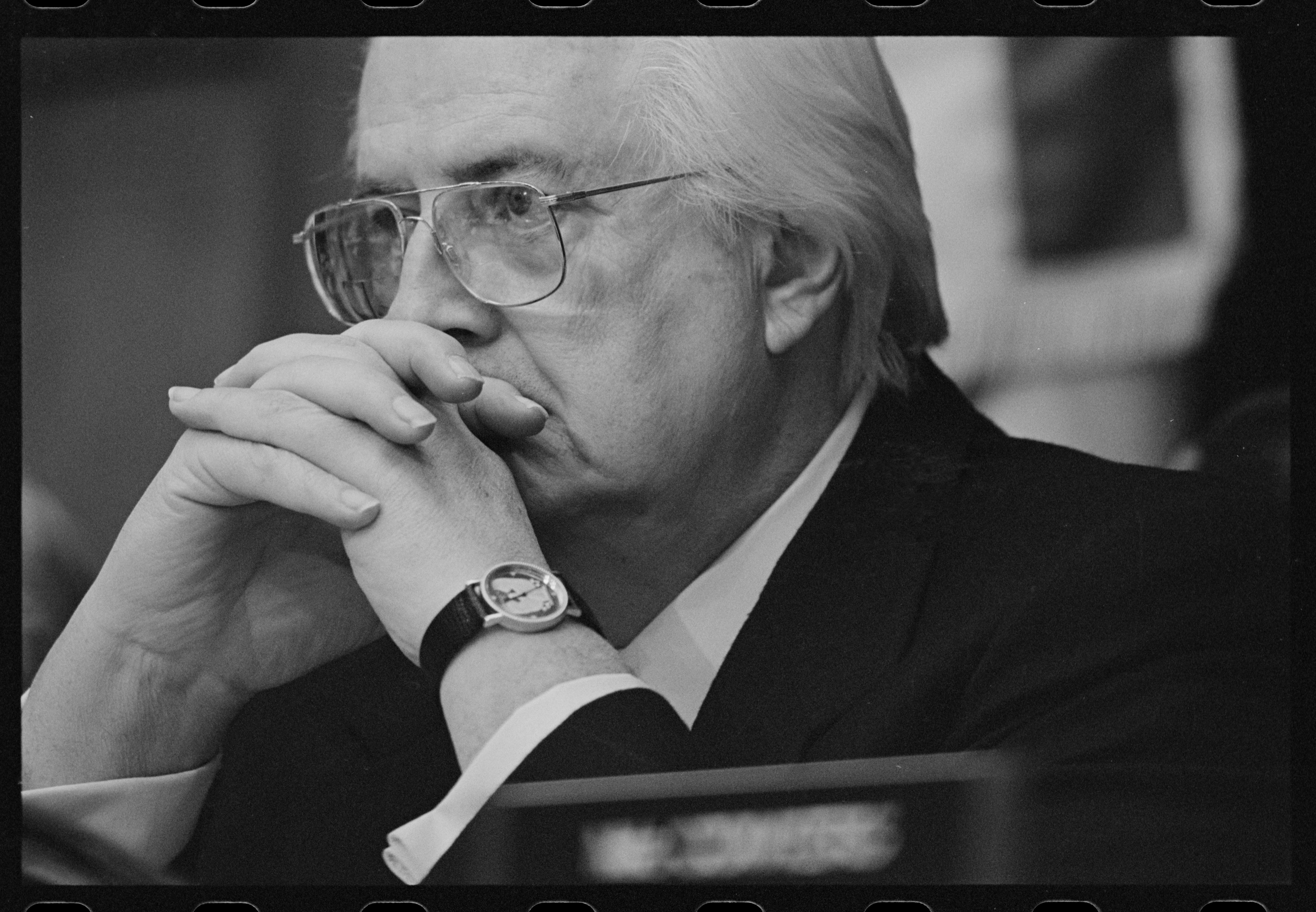 Representative Henry Hyde, Chairman of the House Judiciary Committee at a hearing on special counsel Ken Starr's investigation of President Clinton's relationship with Monica Lewinsky